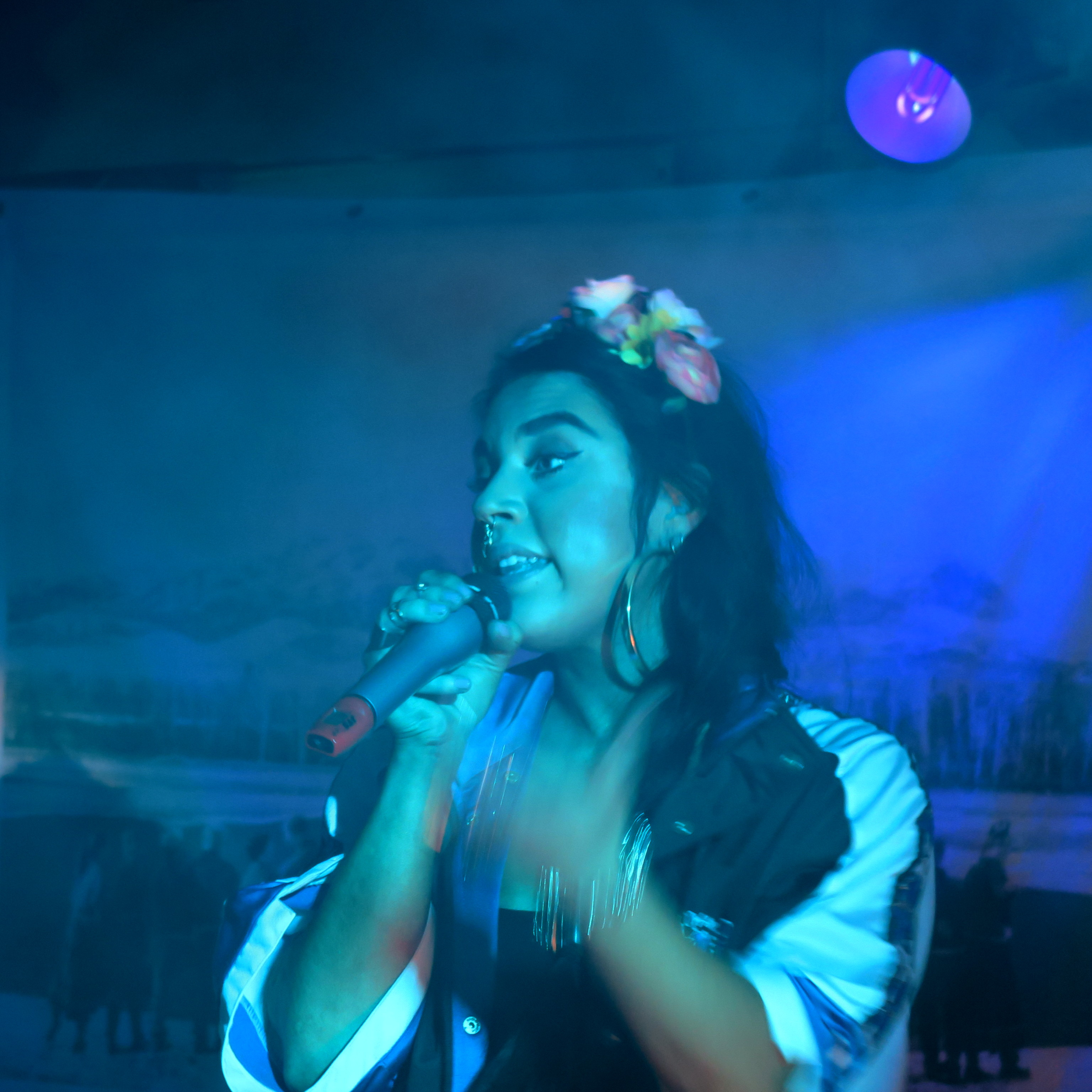 Maxida Märak, in concert in Karasjok during Sápmi Pride 2015